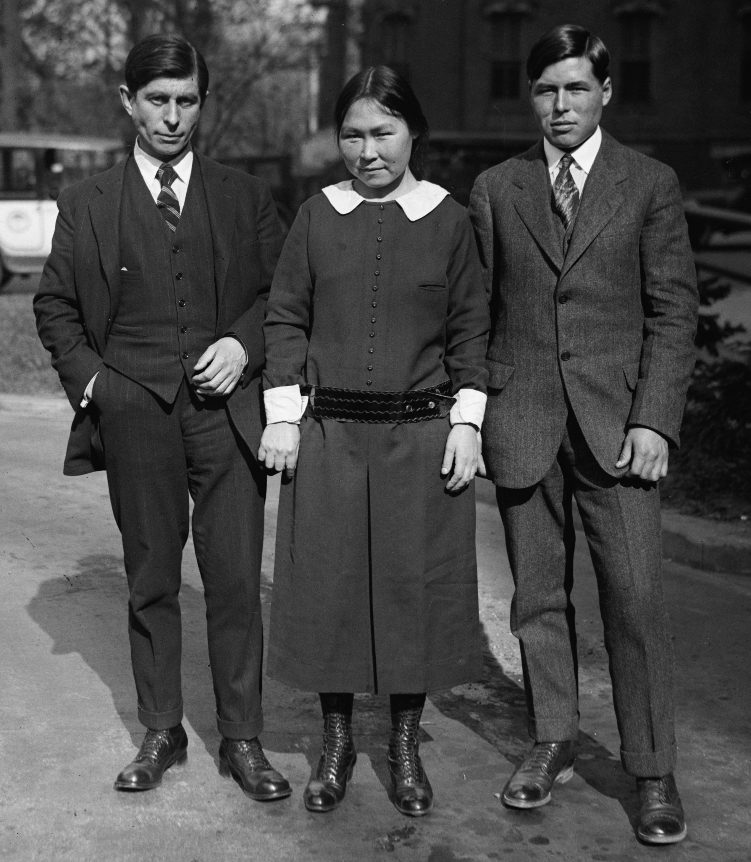 Danish/Greenlandic explorer Knud Rasmussen (1879-1933) with two Inuits, Mrs. Arnalulunguak & Mr. Meetek, on 3 November 1924